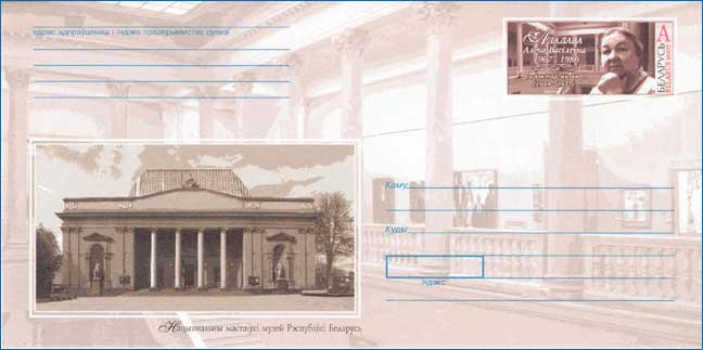 Конверты с оригинальной маркой Республики Беларусь 22 мая 2007 года. Национальный художественный музей Республики Беларусь, № 67 Иллюстрация: Национальный художественный музей Республики Беларусь. (на бел. яз.). Здание музея. Марка: Аладова Елена Васильевна. 1907-1986. Директор музея (1944-1997) (на бел. яз.). Портрет Аладовой Е.В., холл музея. Номинал А (тариф для пересылки простого письма весом до 20 г. в пределах Республики Беларусь. На дату ввода конверта в обращение - 220 руб.). Художник А.Рыбчинский. Размер конверта 220х110 мм. На марке конверта применены элементы защиты: текст "БЕЛАРУСЬ BELARUS" и фрагмент белорусского орнамента, обладающие видимой люминесценцией в УФ-излучении. Напечатано УП "Бумажная фабрика" Гознака г. Борисов, зак. 7447-07. Тираж 30 000 экз. 22 мая 2007 г. на Минском почтамте осуществлялось специальное памятное гашение штемпелем с фиксированной датой. Художник штемпеля А. Рыбчинский.